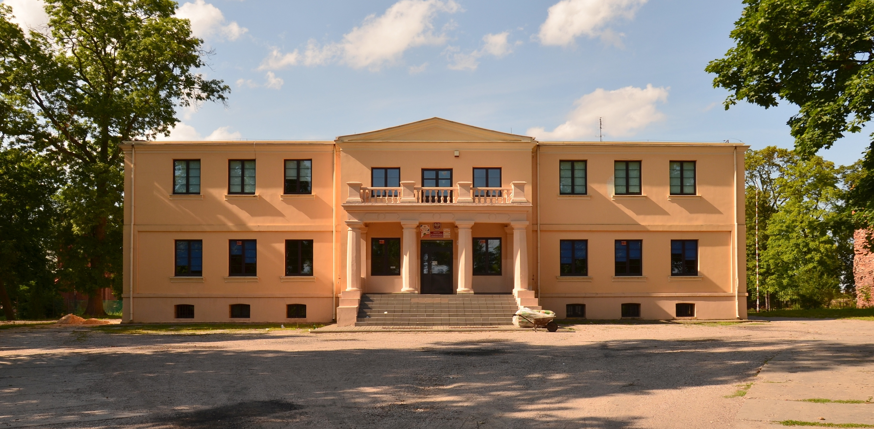 Radziki Duże, manor, now school building